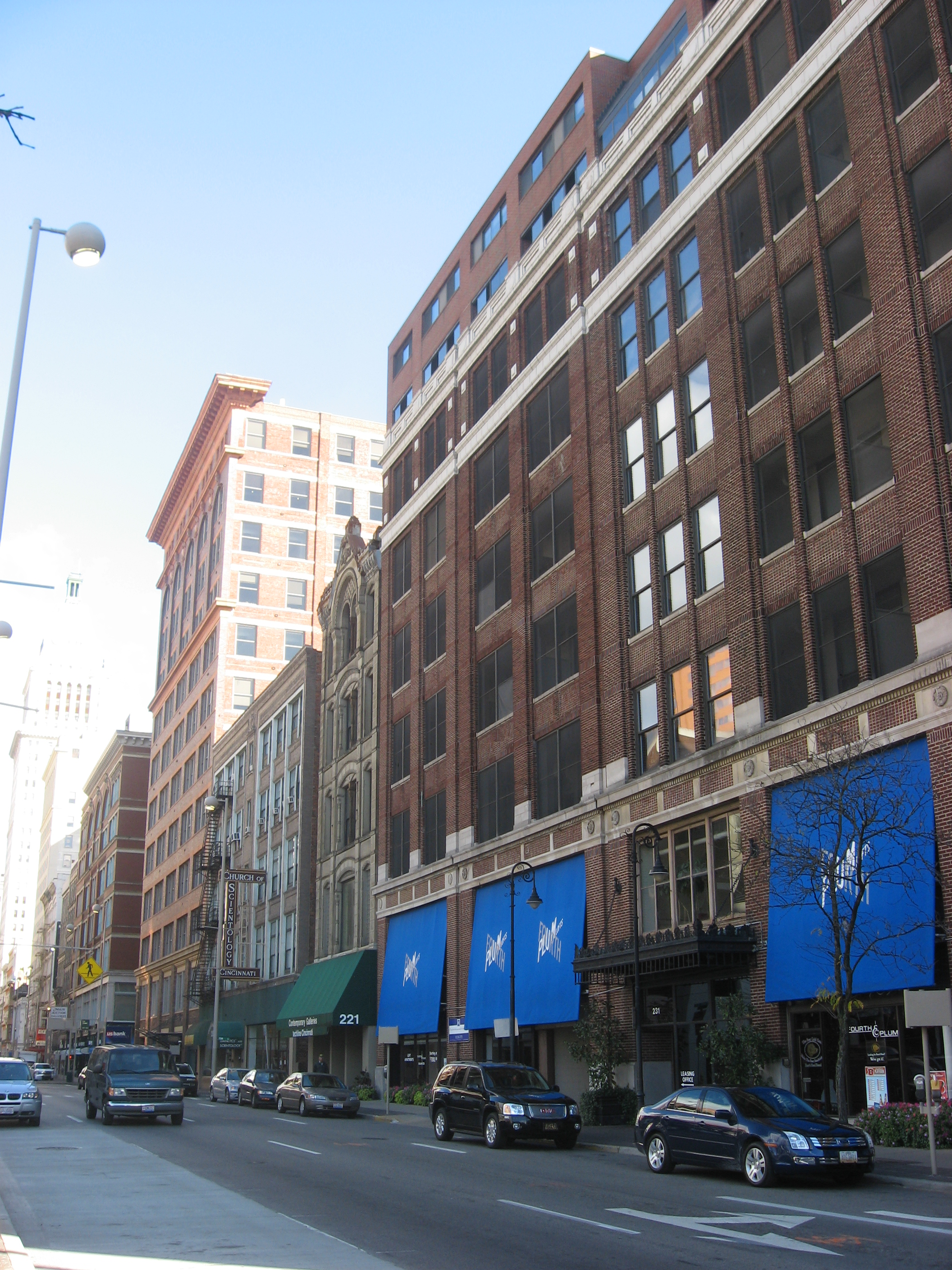 Buildings on the southern side of the 200 block of W. Fourth Street in downtown Cincinnati, Ohio, United States. This block is part of the West Fourth Street Historic District, a historic district that is listed on the National Register of Historic Places.